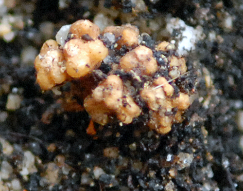 Cycas circinalis - Coralloir Roots